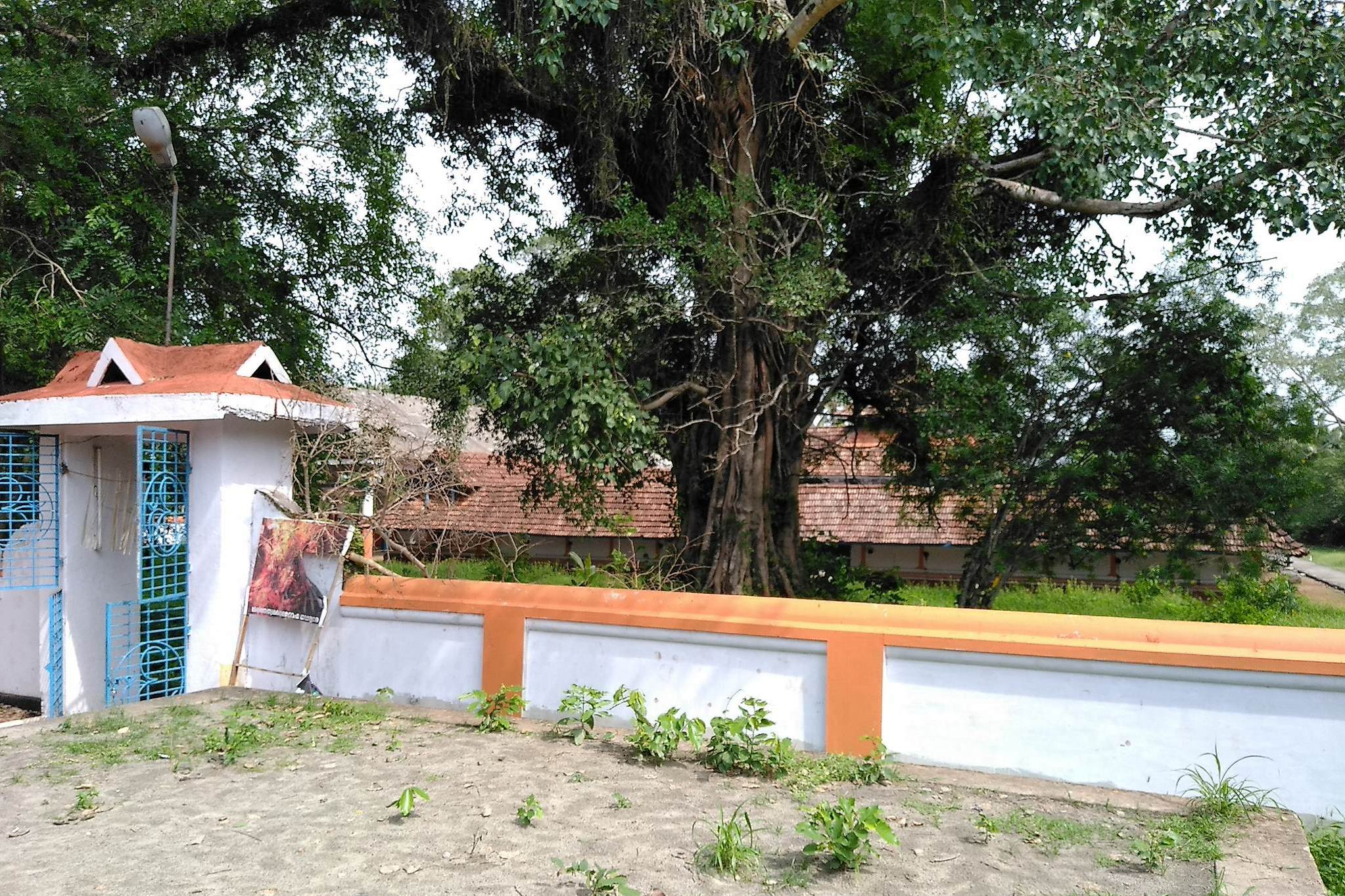 Velappaya Temple, Thrissur